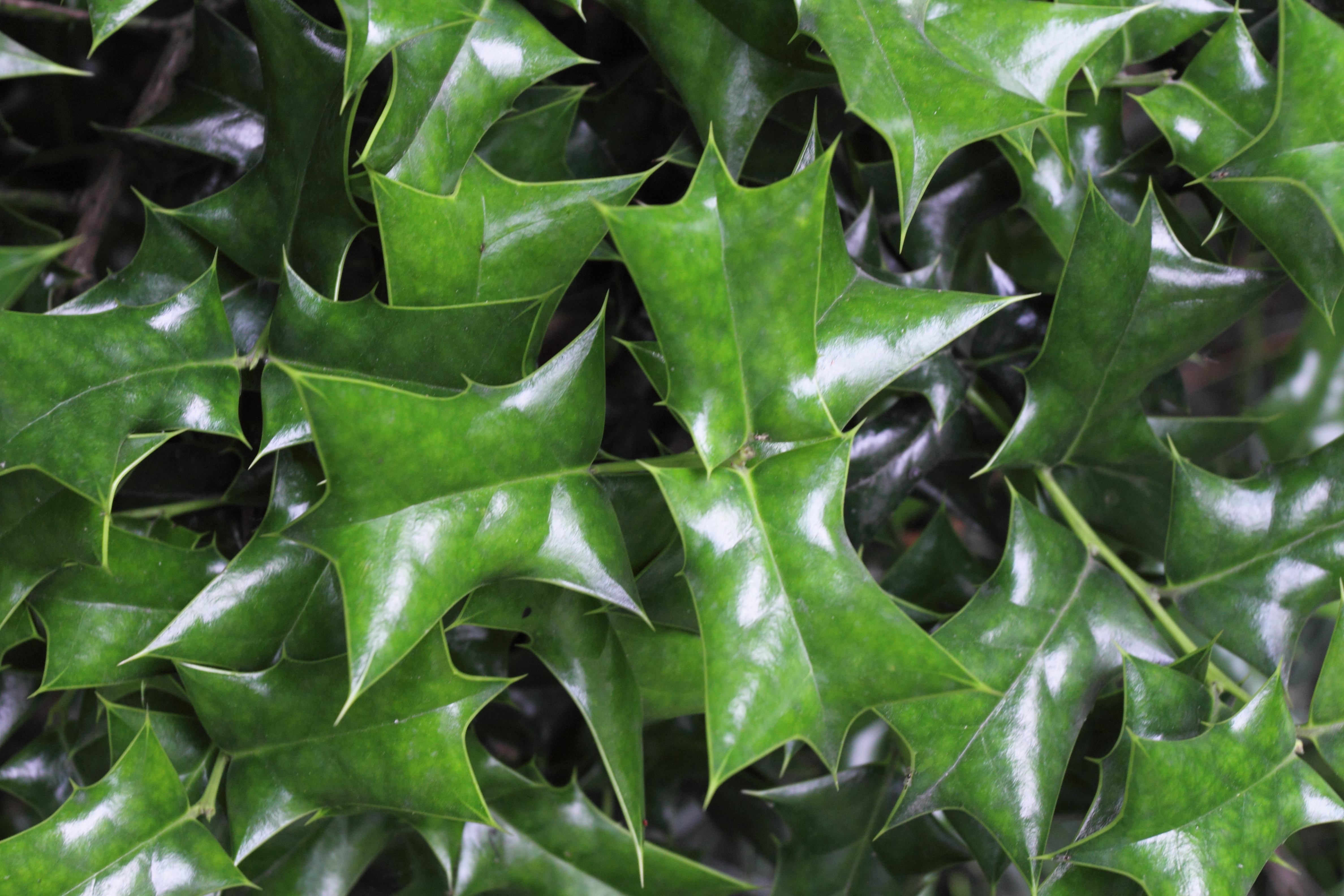 Ilex cornuta, in Hangzhou, Zhejiang, China.